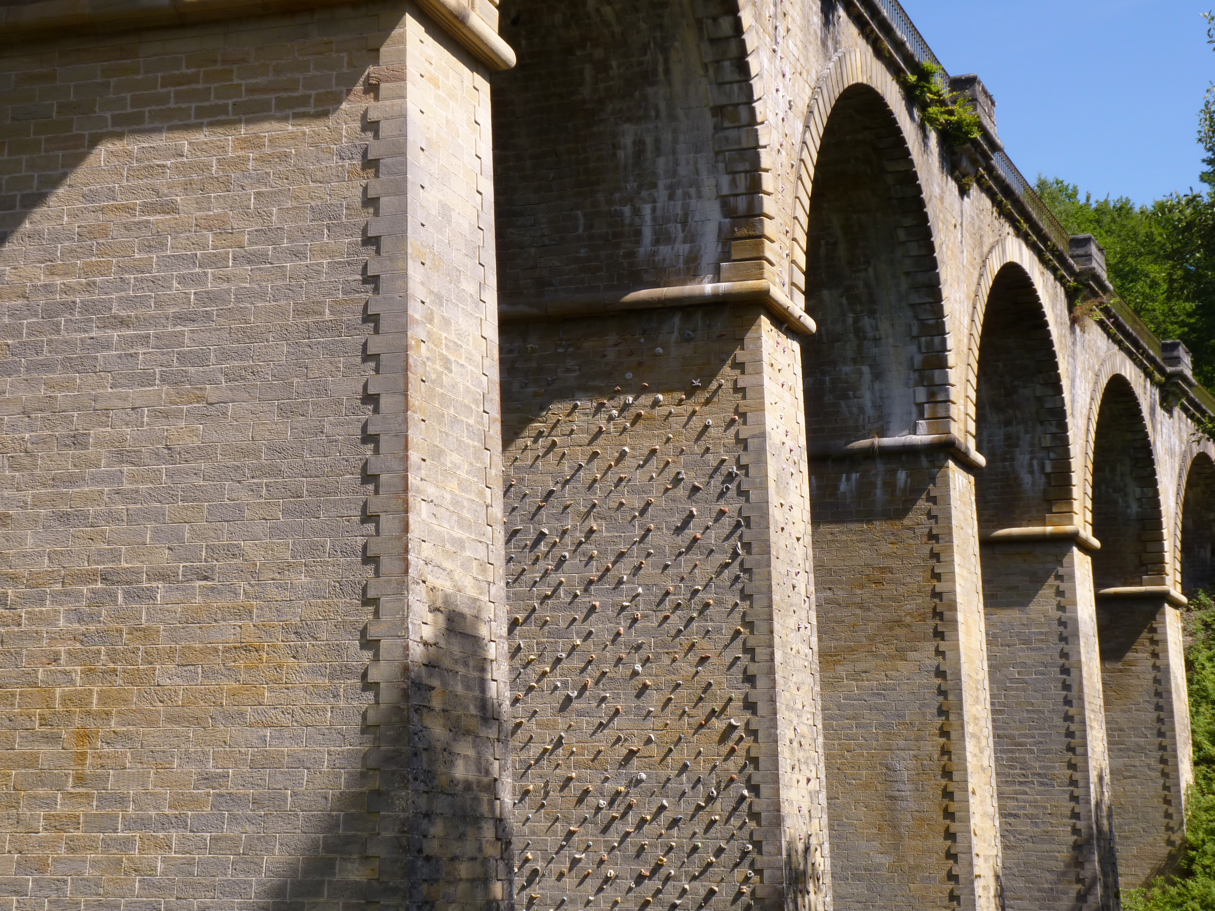 Tatal Bridge in La vallée de l'Ourche